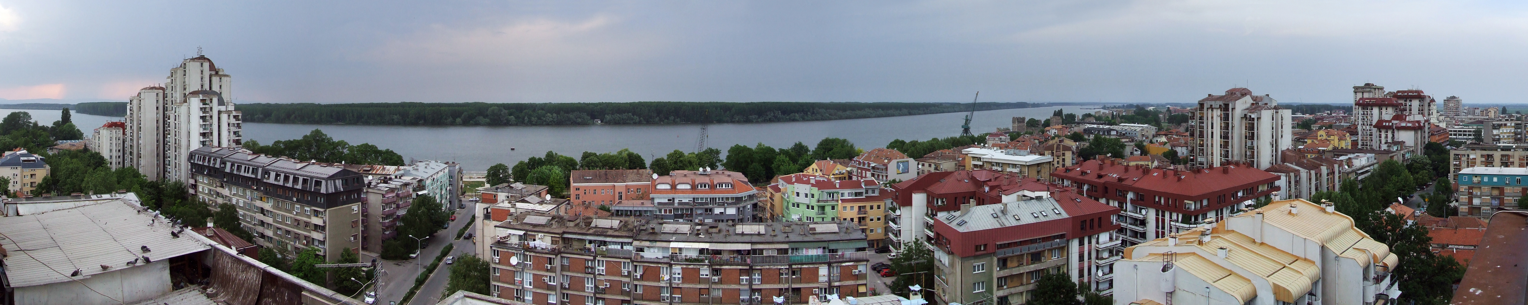 Panoramic image of Smederevo in downtown.